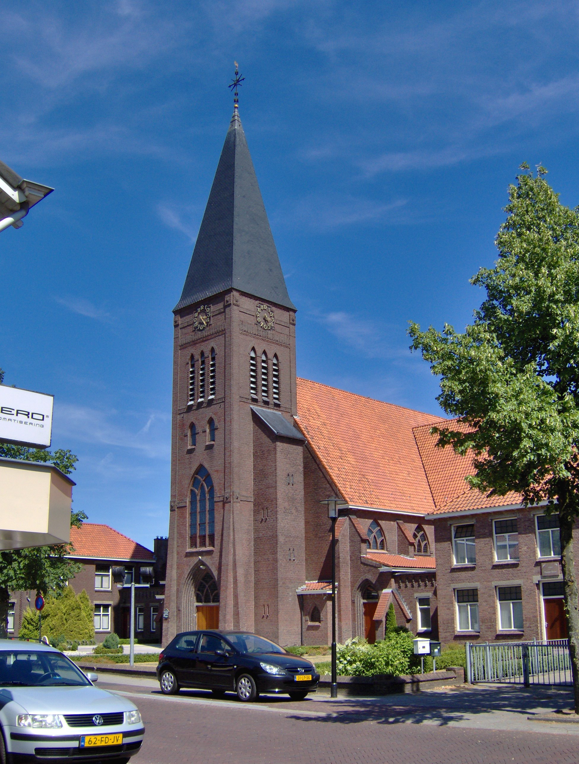 Roman Catholic Church of the village of Enter, in the municipality of Wierden, in the province of Overijssel in the Netherlands.